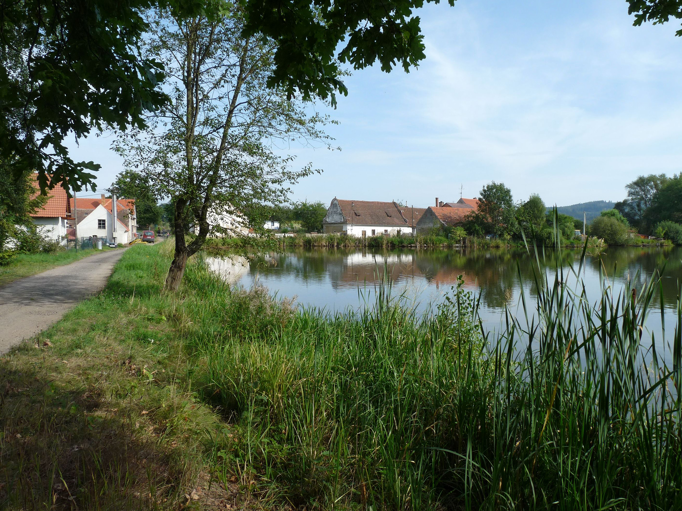 Bašta pond in the village of Čichtice, part of the town of Bavorov in Strakonice District, Czech Republic. Česky: Rybník Bašta ve vsi Čichtice, části města Bavorov v okrese Strakonice.